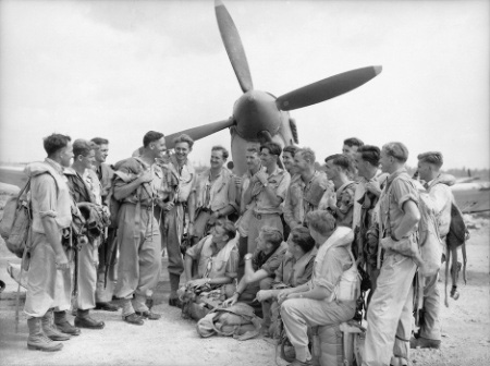 AWM caption : "MOROTAI, HALMAHERA ISLANDS, NETHERLANDS EAST INDIES. C. 1945-01-24. GROUP PORTRAIT OF AUSTRALIAN SPITFIRE PILOTS OPERATING IN THE HALMAHERAS WHO ARE FORTUNATE IN HAVING SUCH AN ACCOMPLISHED MENTOR ON TACTICS AS GROUP CAPTAIN CLIVE "KILLER" CALDWELL, AUSTRALIAN FIGHTER ACE. HE IS FOURTH FROM LEFT, TALKING TO SOME OF HIS PILOTS OF NO. 452 SQUADRON RAAF IN FRONT OF ONE OF THEIR AIRCRAFT".